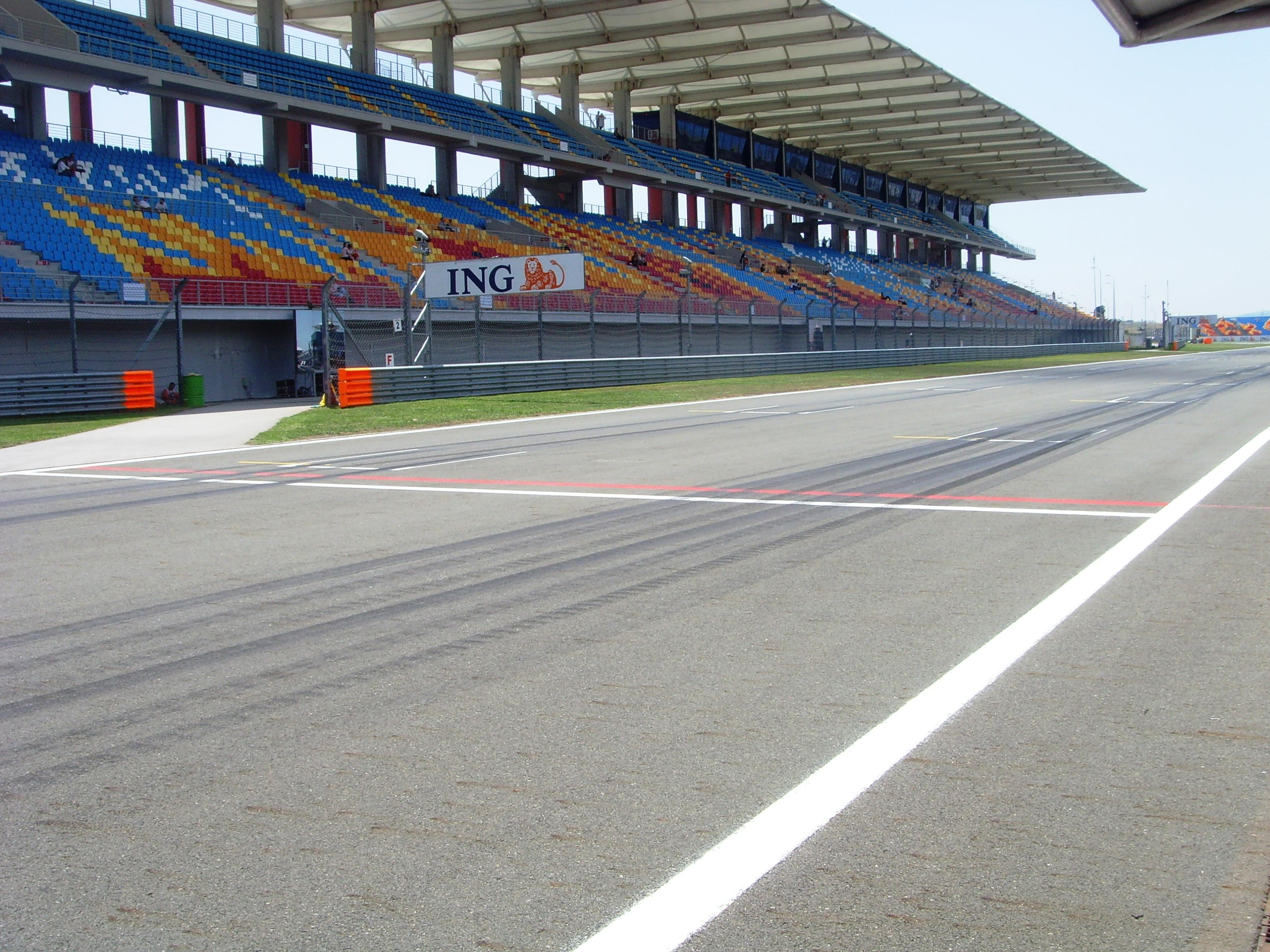 Start-Finish line at Istanbul Park